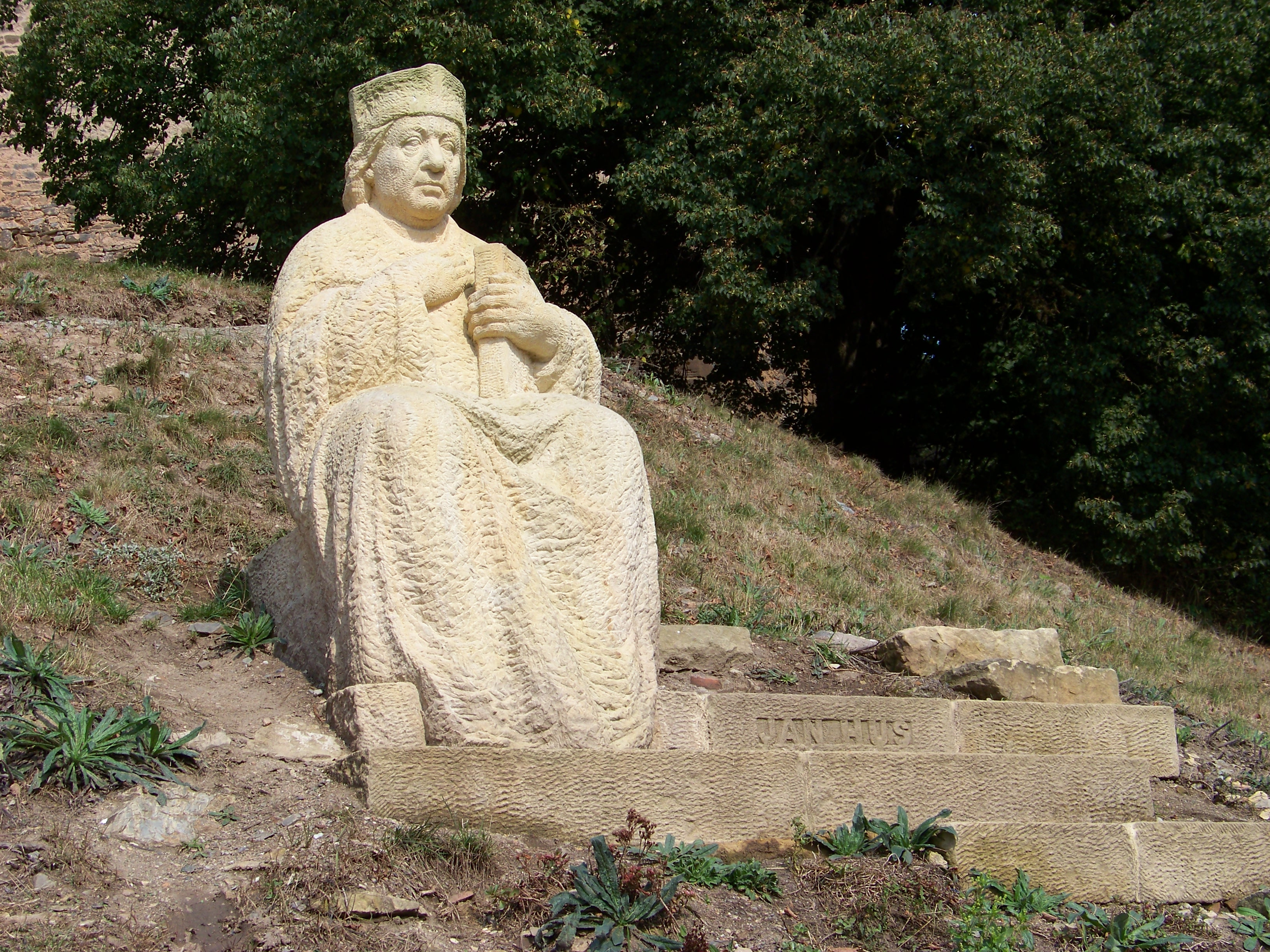 Krakovec, Rakovník District, Central Bohemian Region, the Czech Republic. A statue of Jan Hus at Krakovec Castle.